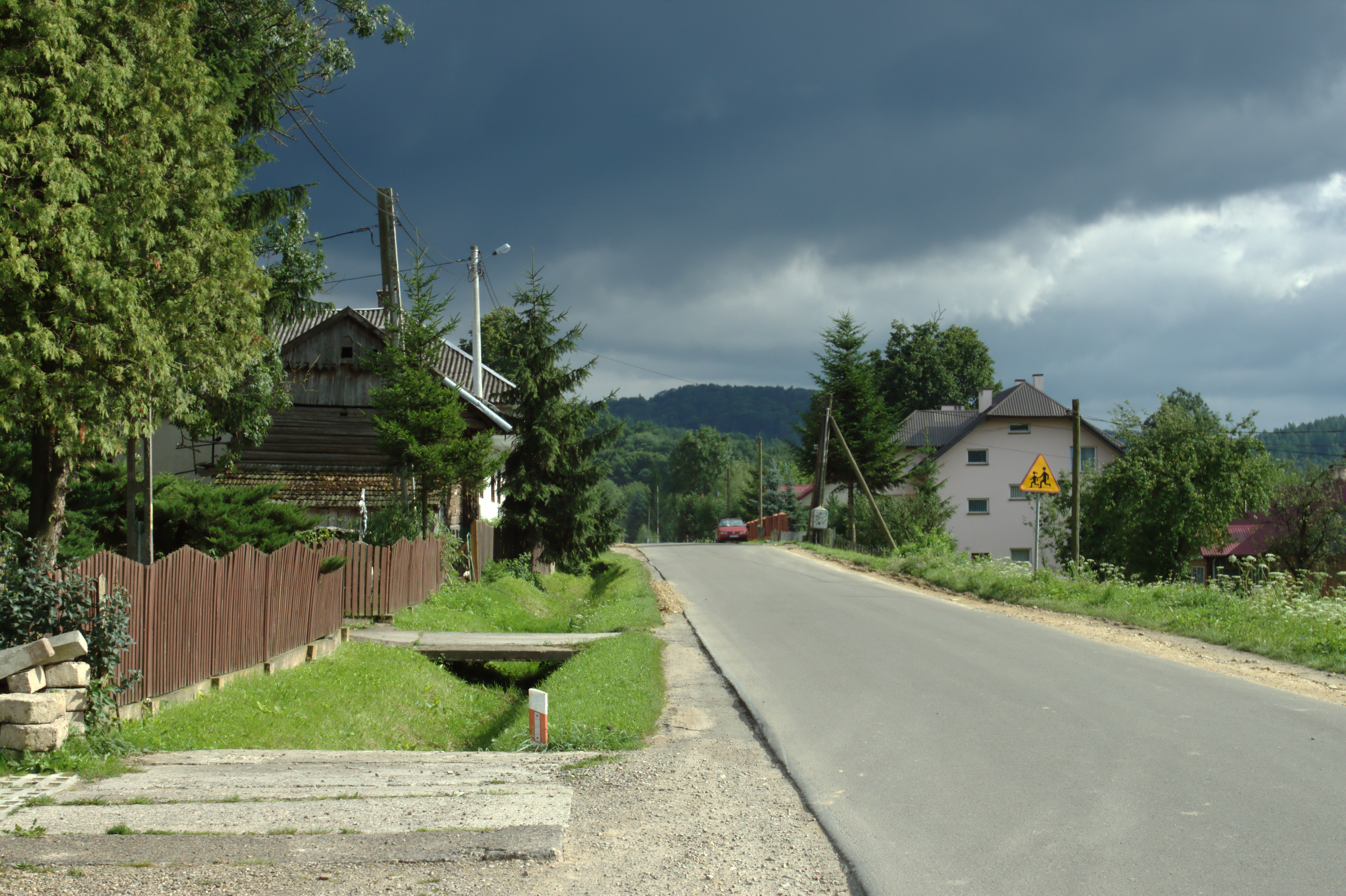 Main road in Siedliska, Podkarpackie voivodeship, PL